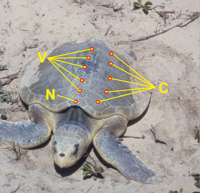 Padre Island National Seashore - Kemps Ridley Sea Turtle. cPhotos and maps related to Padre Island. Tagged version of [Padre Island National Seashore - Kemps Ridley Sea Turtle.jpg]